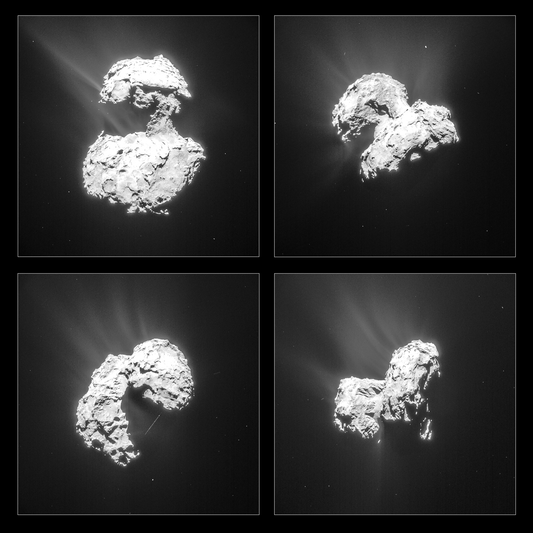 Montage of four single-frame images of Comet 67P/C-G taken by Rosetta’s Navigation Camera (NAVCAM) at the end of February 2015. The images were taken on 25 February (top left), 26 February (top right) and on two occasions on 27 February (bottom left and right). The images have been processed to bring out the details of the comet’s activity. The exposure time for each image is 2 seconds.